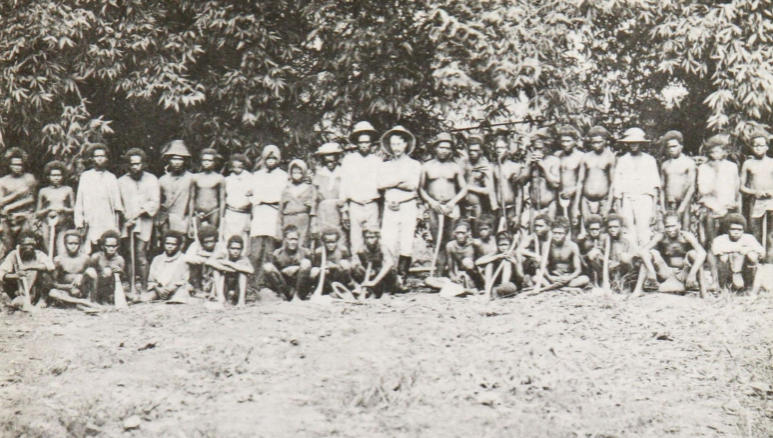 Adolescent Pacific Island workers on the Lower Herbert River in the early 1870s